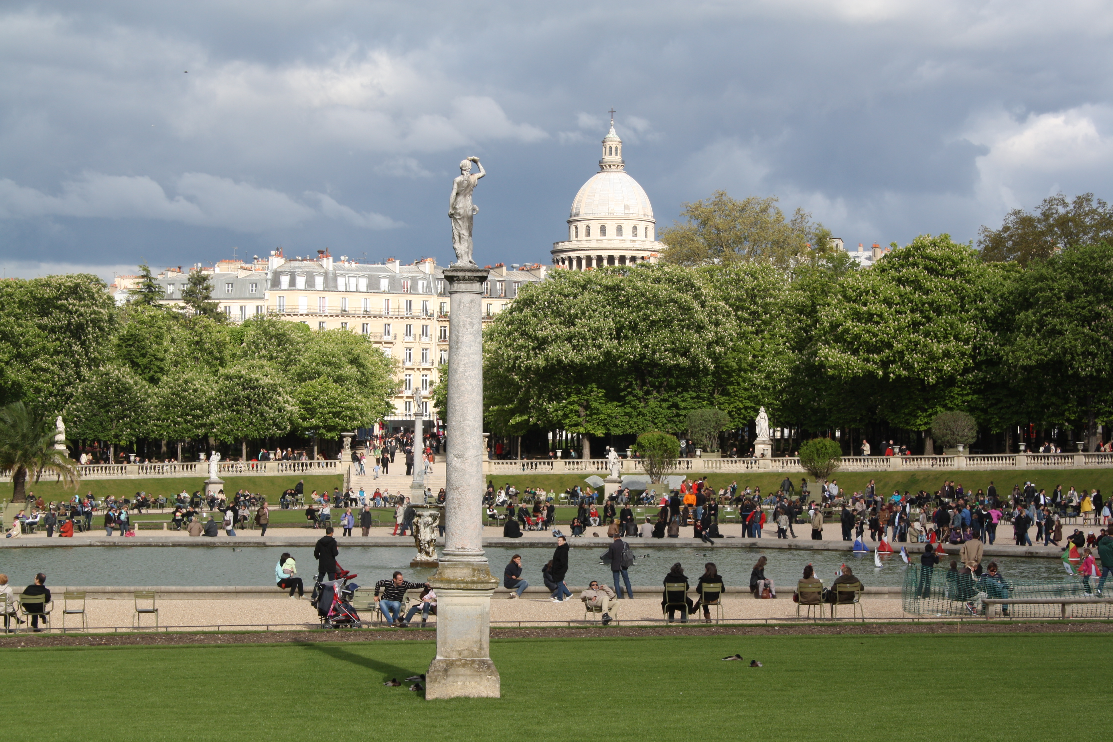 Pantheon seen from Luxembourg Gardens